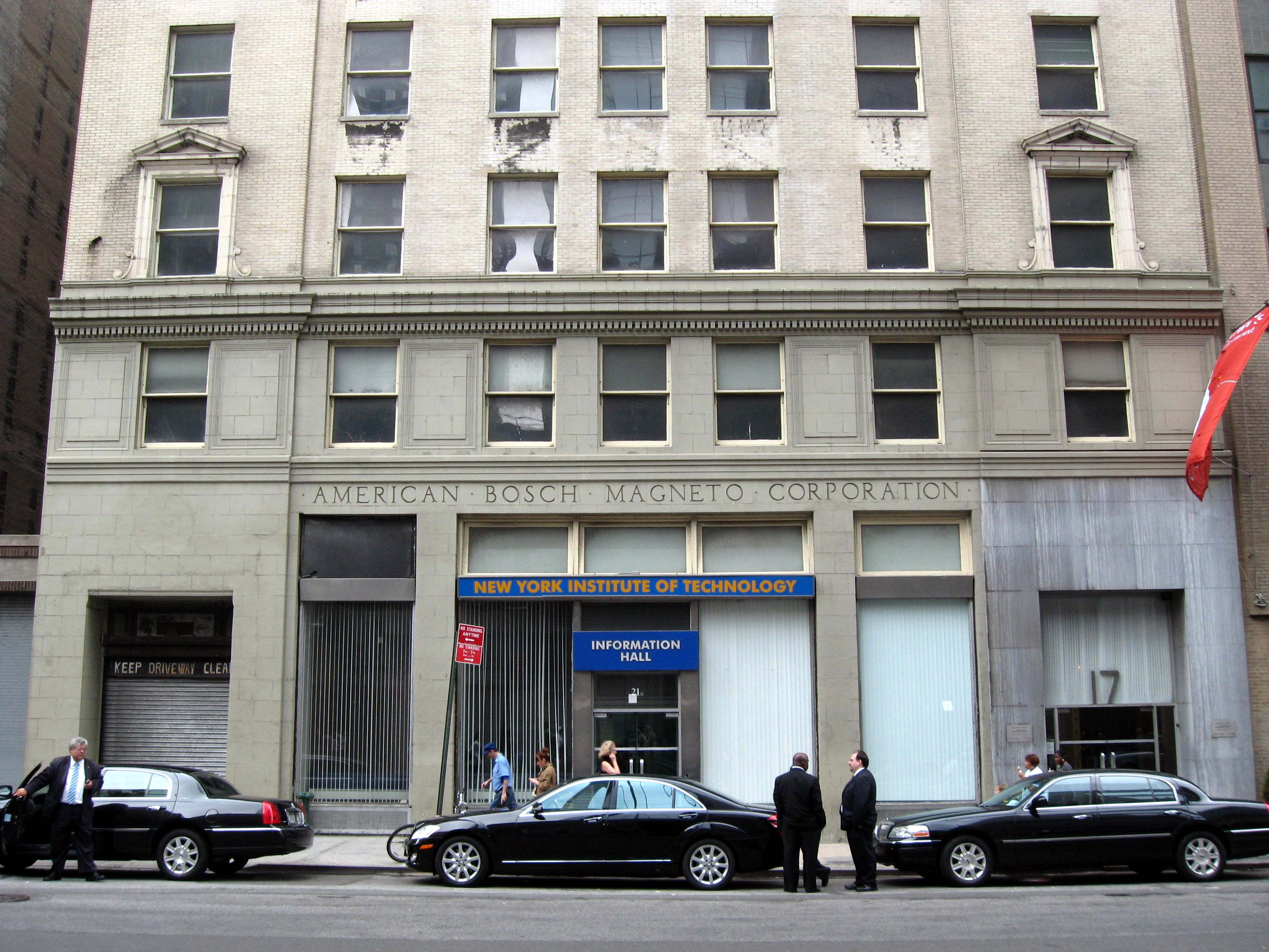 Looking north at American Bosch Magneto[1] building on 60th Street, now belonging to New York Institute of Technology. ZIP 10023.